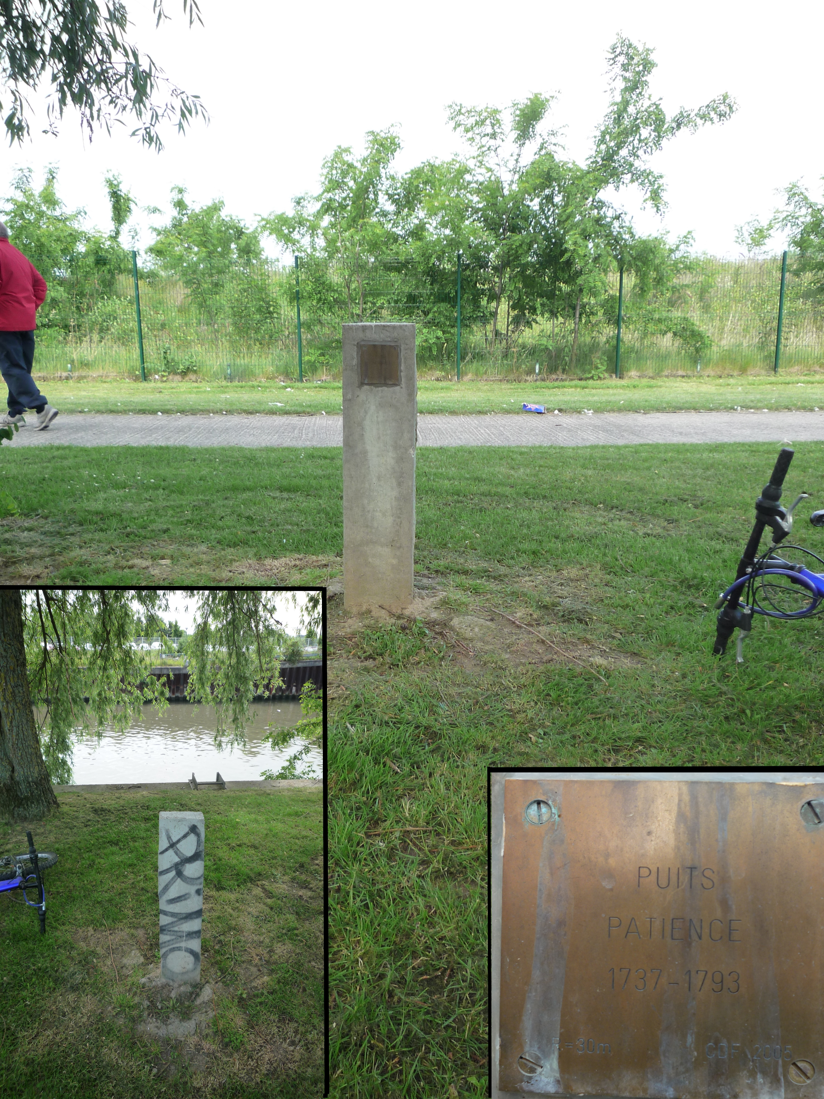 Former pit Patience at Anzin, France. 1737 - 1793.